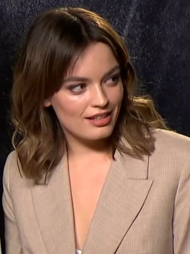 Emma Mackey at an MTV International interview in January 2019